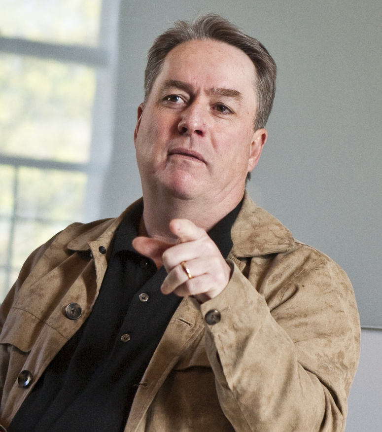 Brad Wright speaking at Vancouver Film School in August 2008.